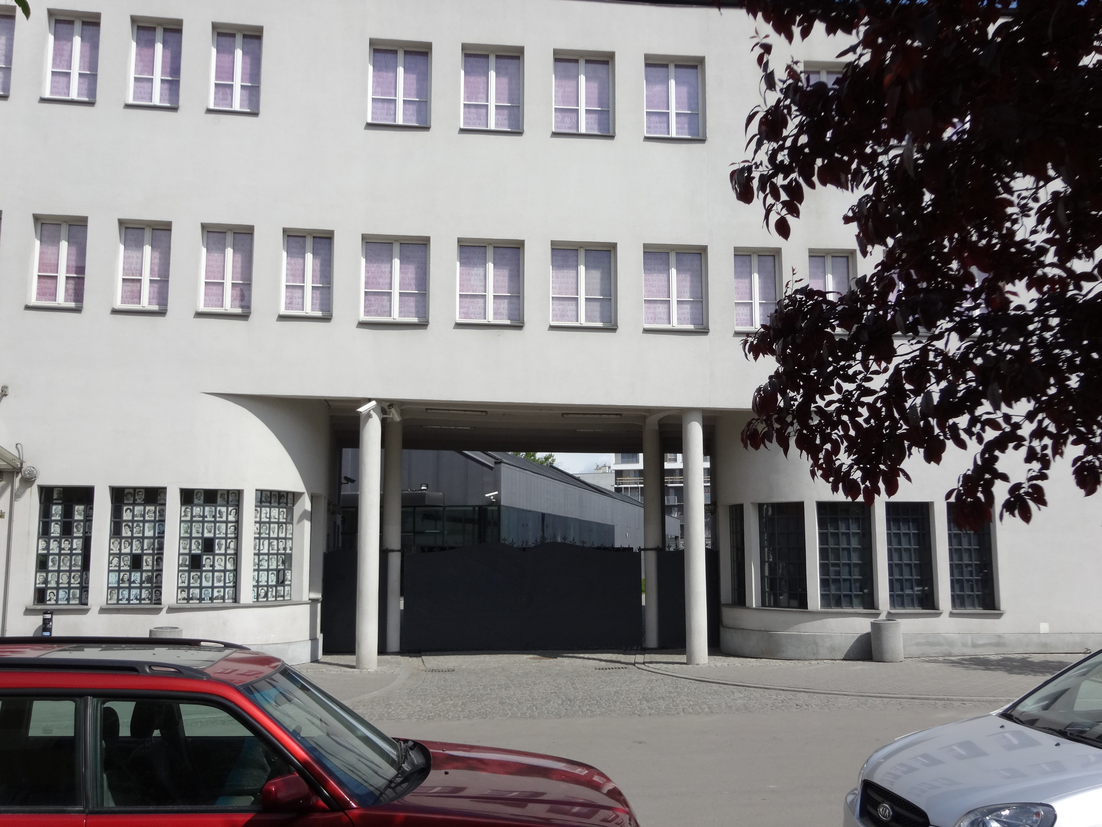 Oskar Schindler's factory in Krakow